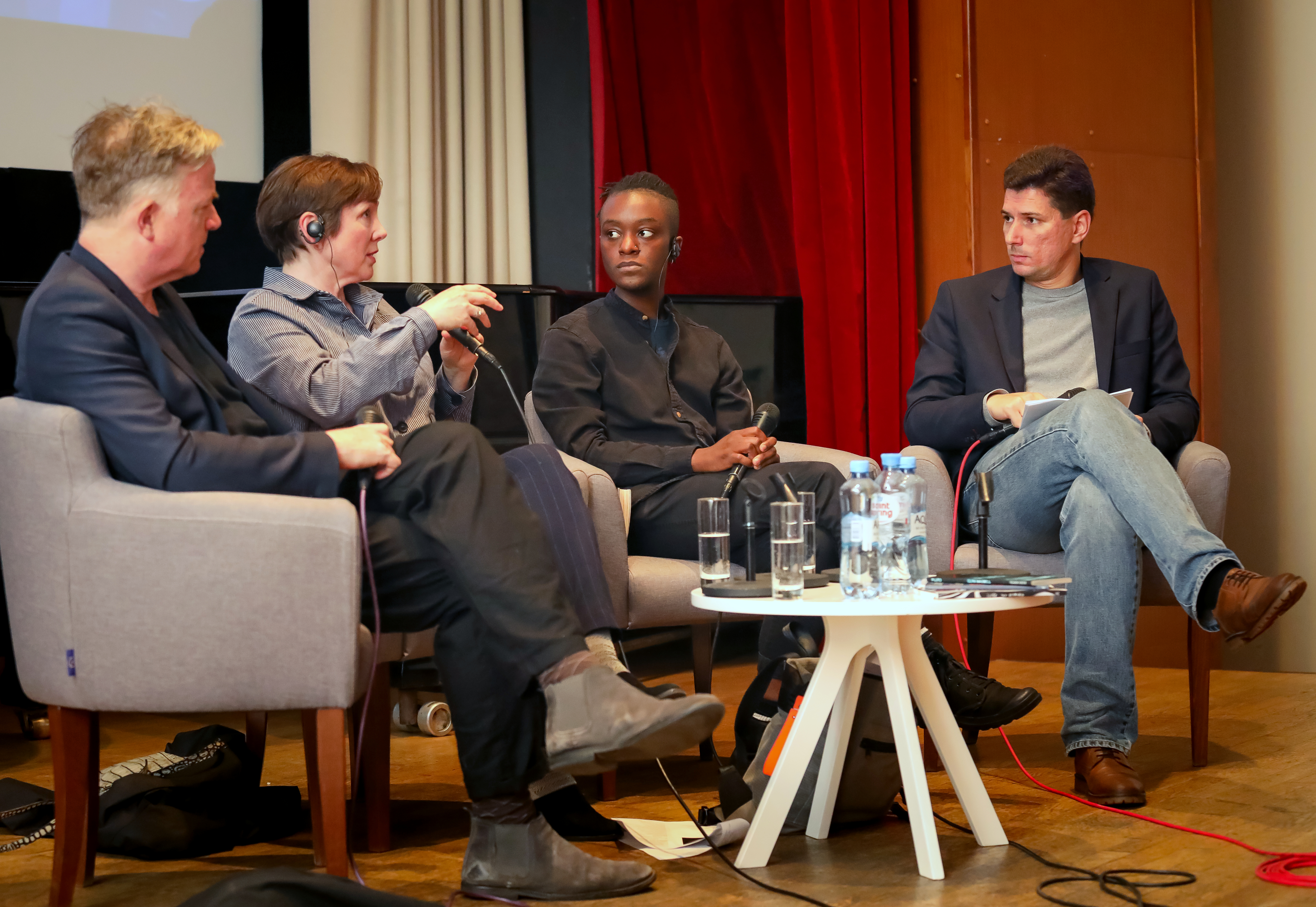 Meeting with writers from the UK in All-Russia State Library for Foreign Literature. Glyn Maxwell, Lavinia Greenlaw, Jay Bernard, Denis Beznosov.